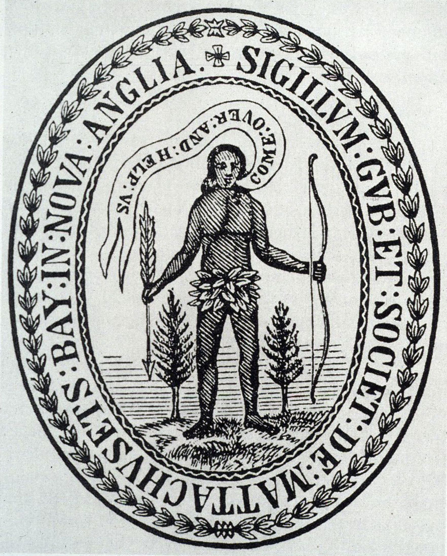 Massachusetts Seal: In 1629, King Charles I granted a charter to the Massachusetts Bay Colony, which included the authority to make and use a seal. It featured an Indian holding an arrow pointed down in a gesture of peace, and the unlikely words "Come over and help us," emphasizing the missionary and commercial intentions of the original colonists.